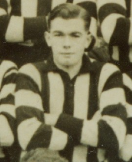 Photo of Norm Oliver in 1940